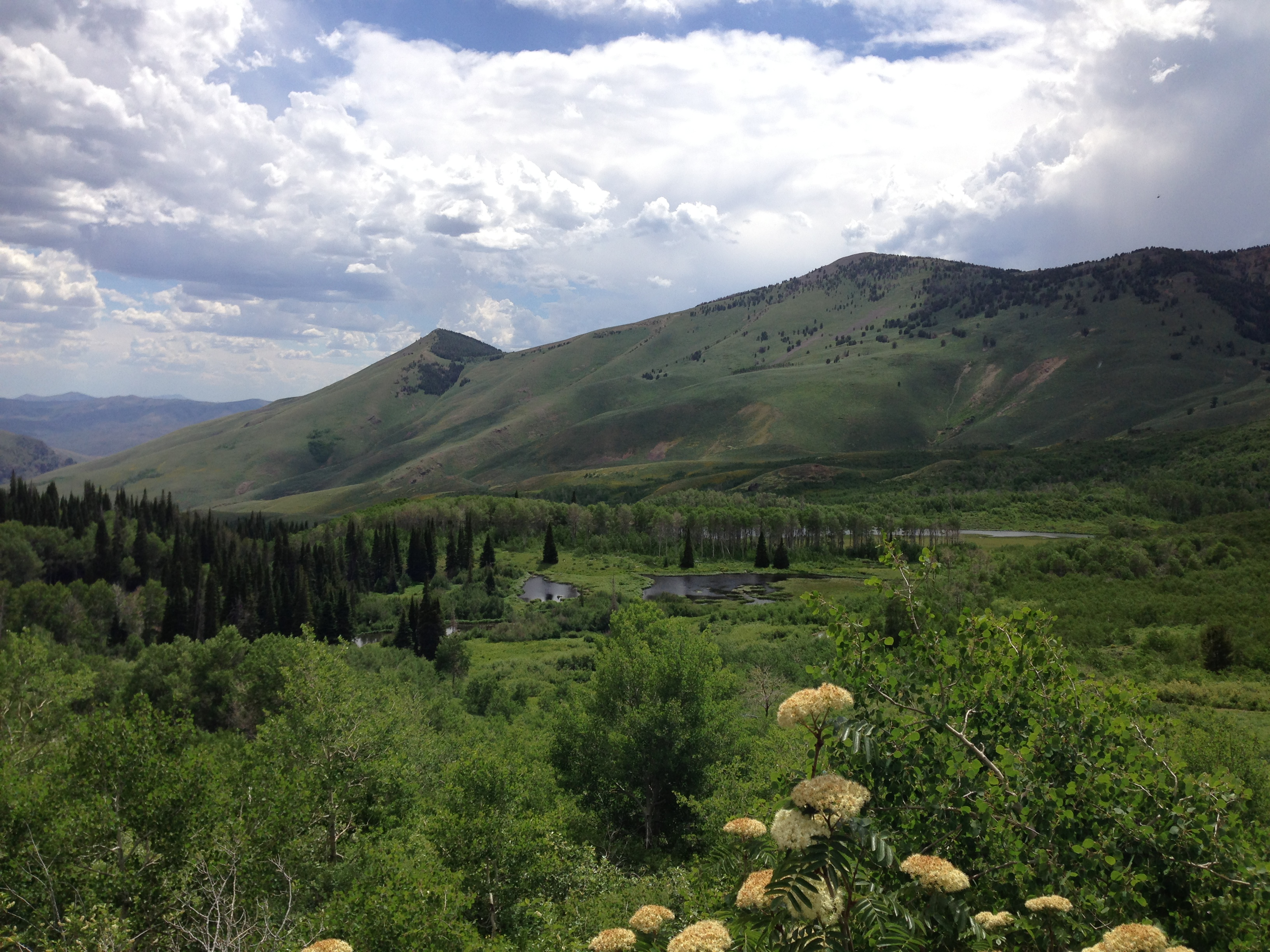 View west-southwest across ponds in Copper Basin, Nevada towards the Copper Mountains from Elko County Route 748 (Charleston-Jarbidge Road)